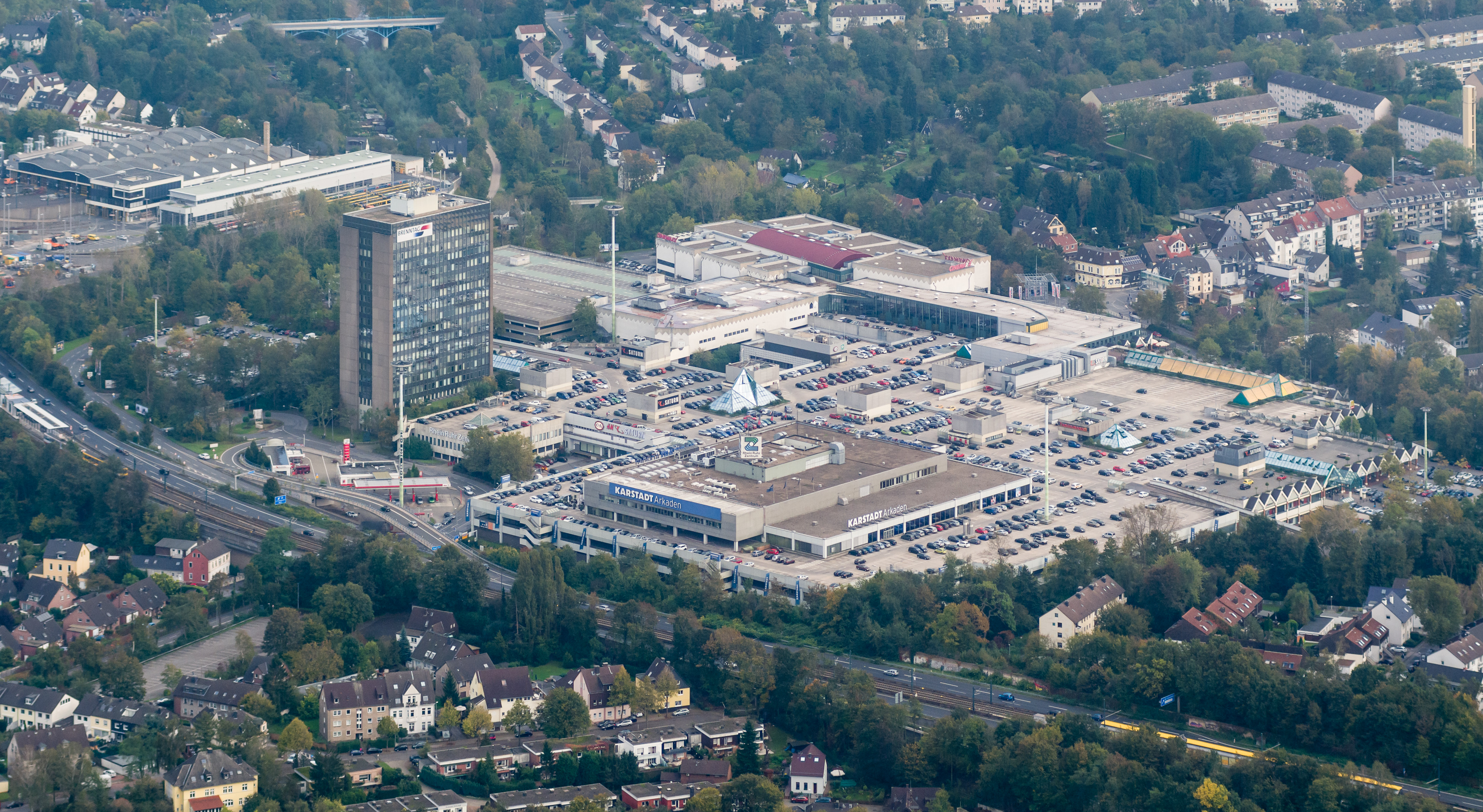 Aerial shot of the shopping center RheinRuhrZentrum in Mülheim